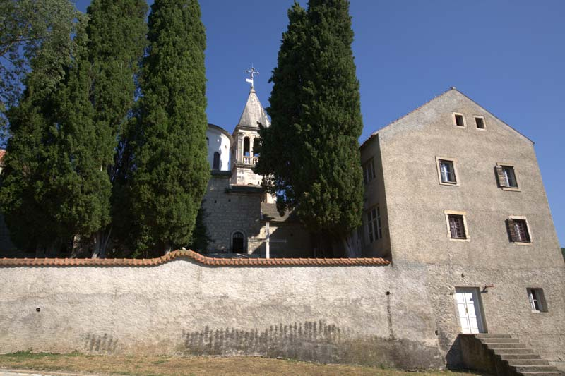 Serbian Orthodox monastery Krka